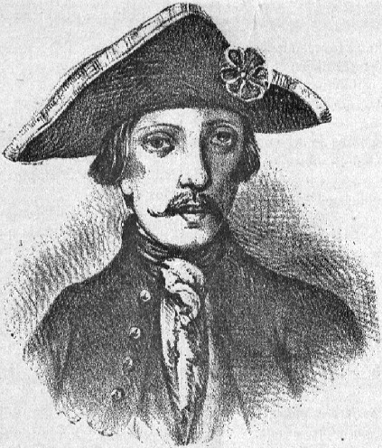 Francisco García Roldán (1664-?) was a Spanish soldier and philanthropist, founder of the Charity Hospital of Cartagena (Region of Murcia).